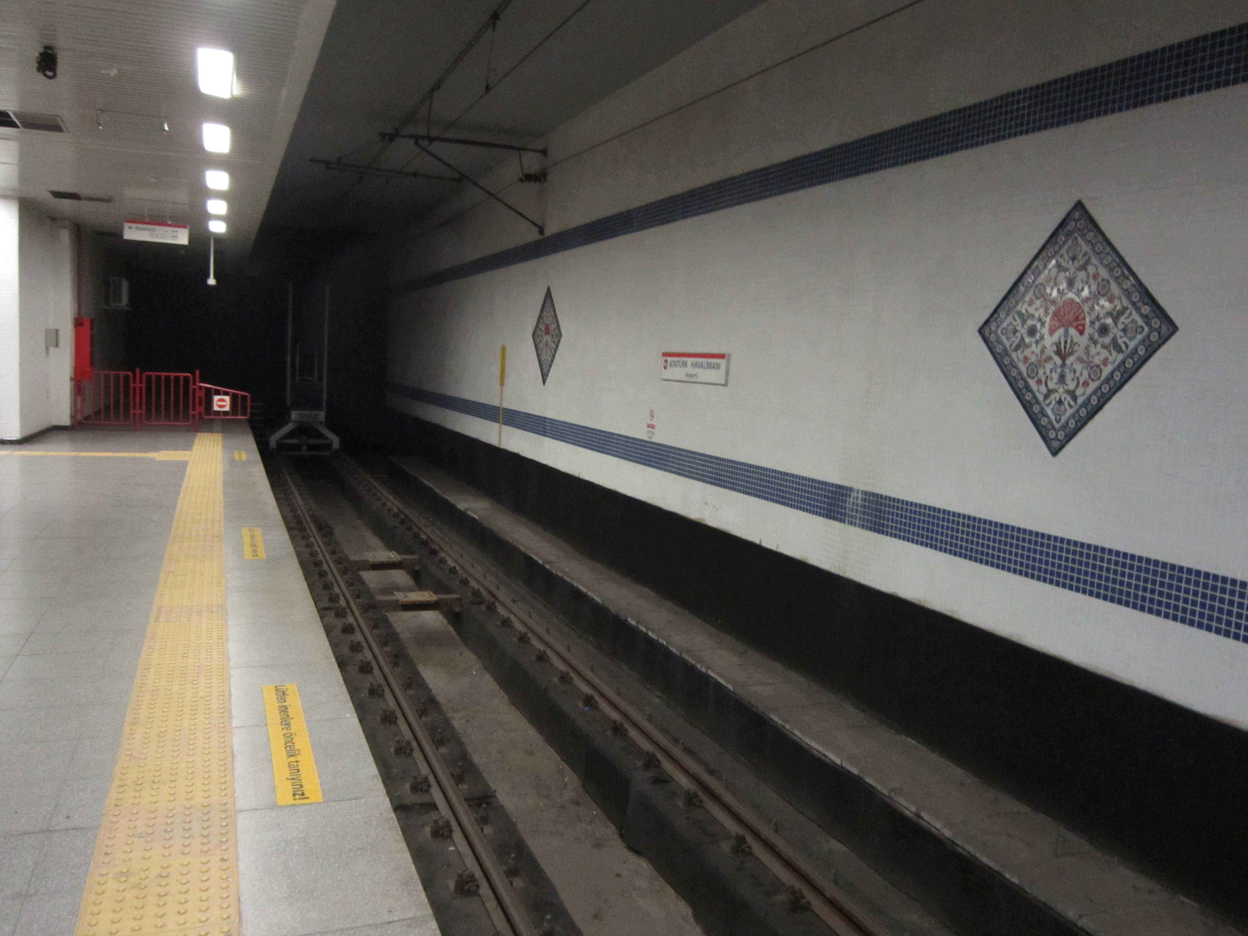 The terminal Atatürk Havalimanı station of the M1 metro line, with tiled panels, and buffer stops at end of the platform